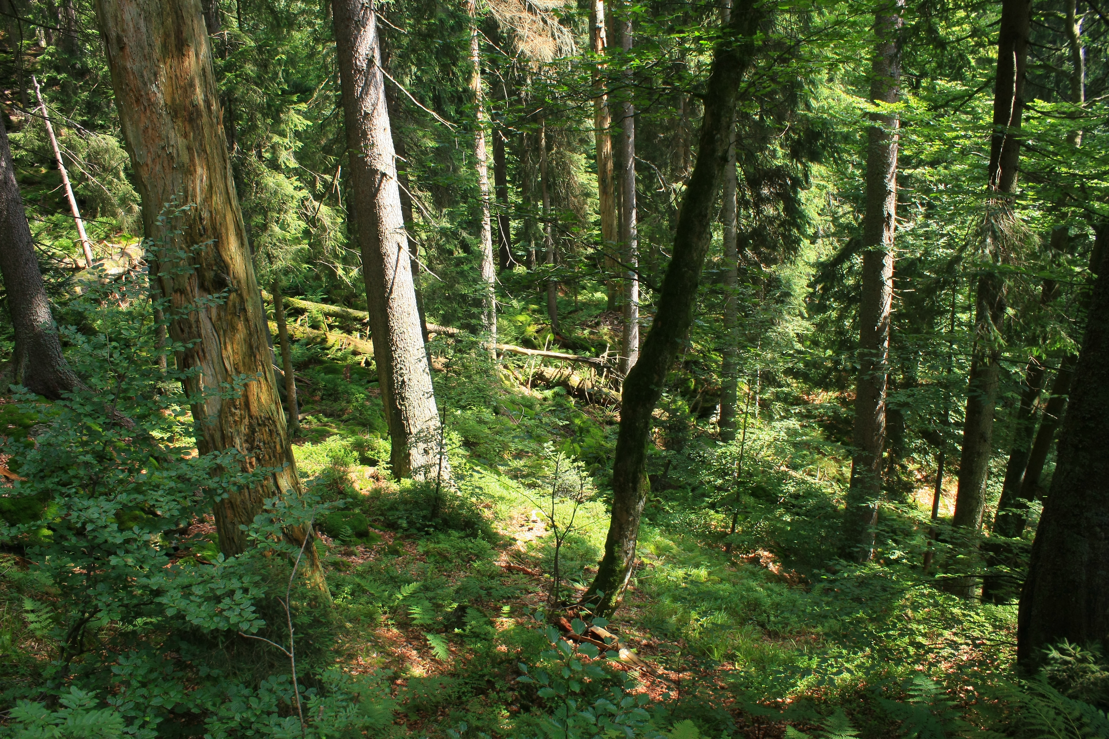 Höllbachgspreng near the Falkenstein, Bavarian Forest Nationalpark